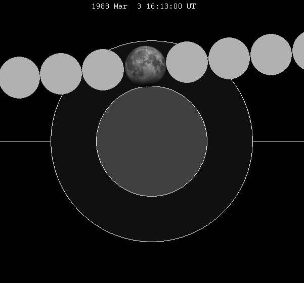 March 1988 lunar eclipse chart of moon's penumbral lunar eclipse path through the earth's shadow. thumb